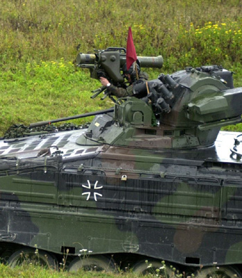 A gunner aboard a 122nd Infantry, Company 5, Marder infantry fighting vehicle sights in on a target during Bundeswehr training